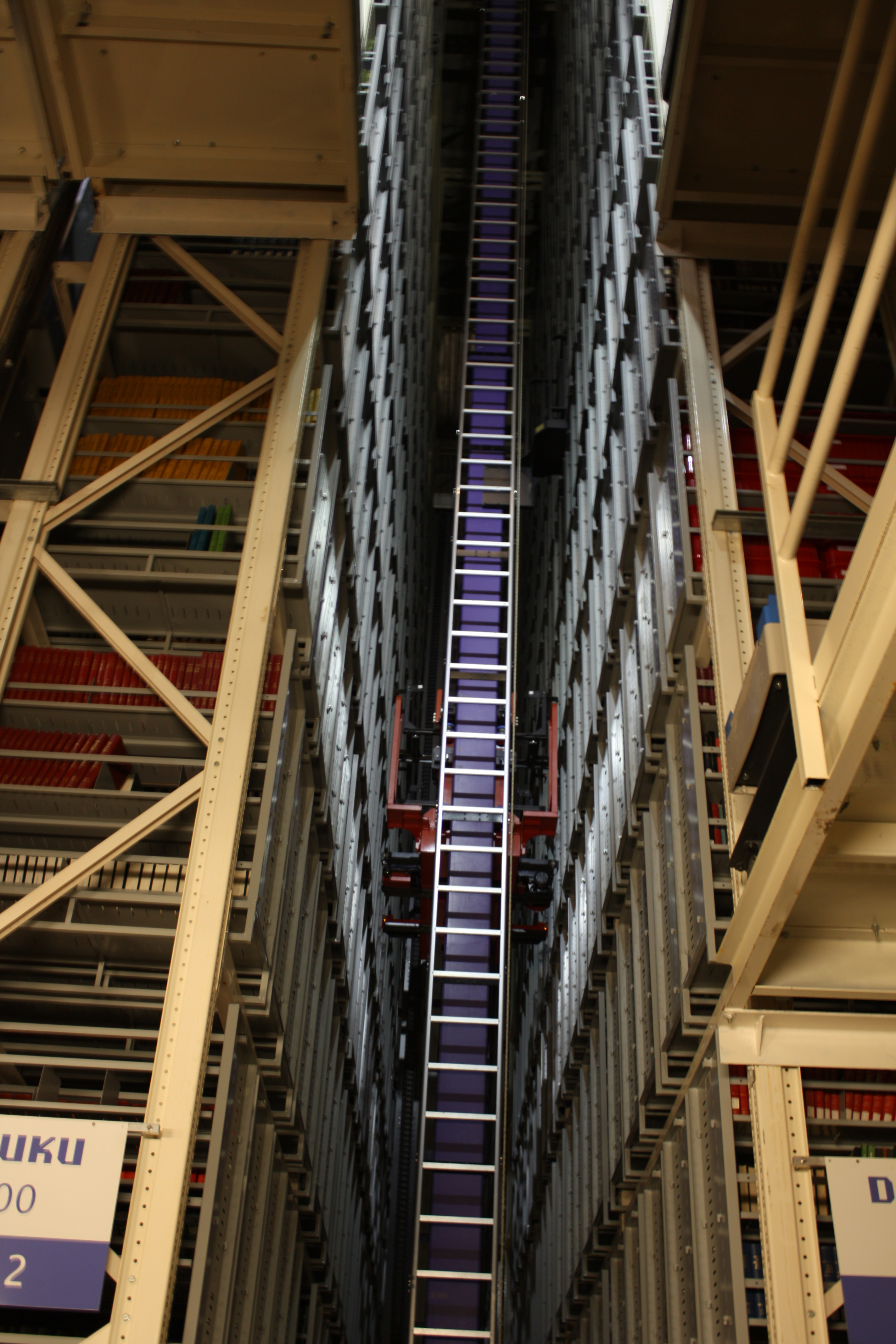 BARN (Borrower’s Automated Retrieval Network) at Utah State University, looking up from basement.